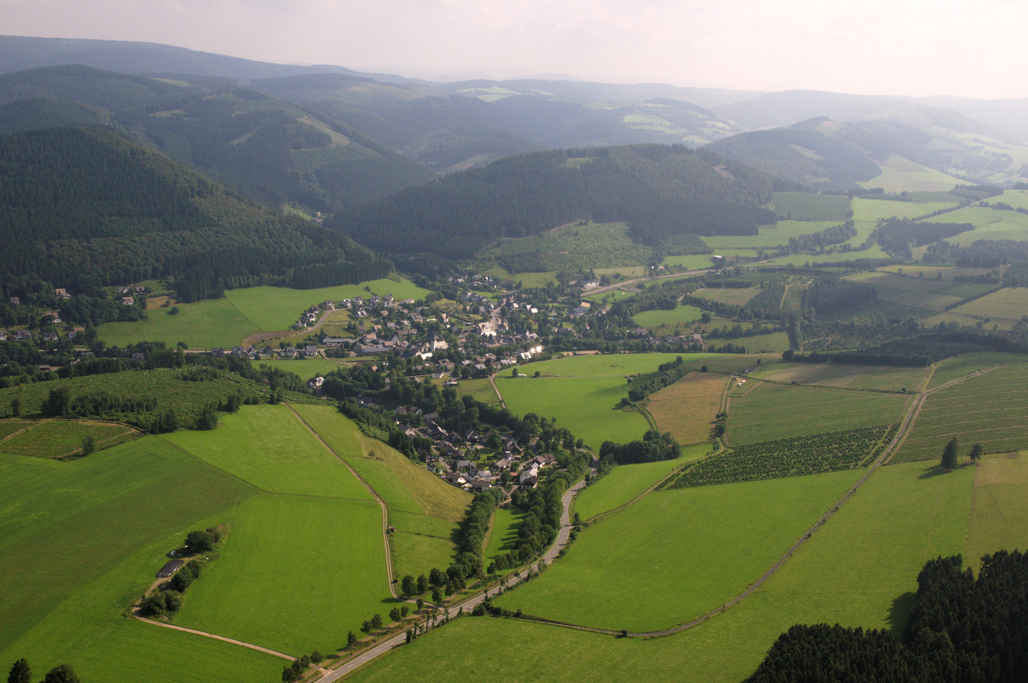 Fotoflug Sauerland-Ost, Schmallenberg-Oberkirchen The making of this document was supported by the Community-Budget of Wikimedia Germany.